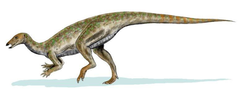 Thescelosaurus neglectus, a hypsilophodont from the Late cretaceous of North America